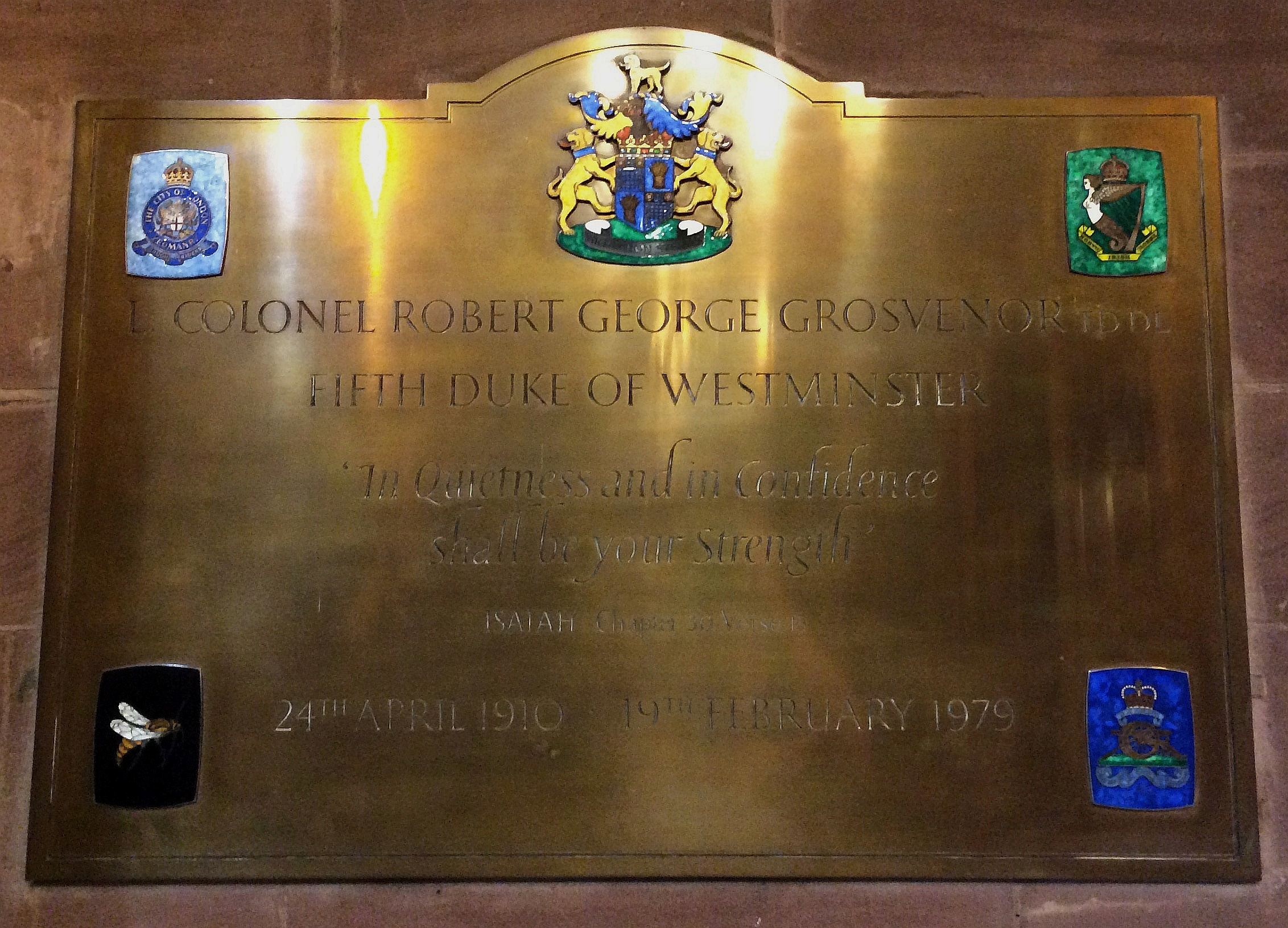 St Mary's Church Eccleston - Memorial tablet to the 5th Duke of Westminster in the Grosvenor Chapel